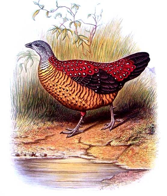 Painted Spurfowl (Galloperdix lunulata)